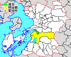 The location of Hikawa in Kumamoto Prefectuur, Japan